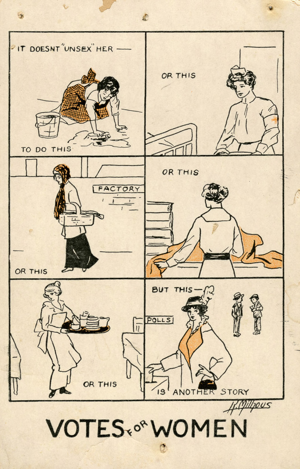 A women's suffrage propoganda postcard countering the rhetoric that voting will make a woman masculine by taking on masculine roles. Date 1915.